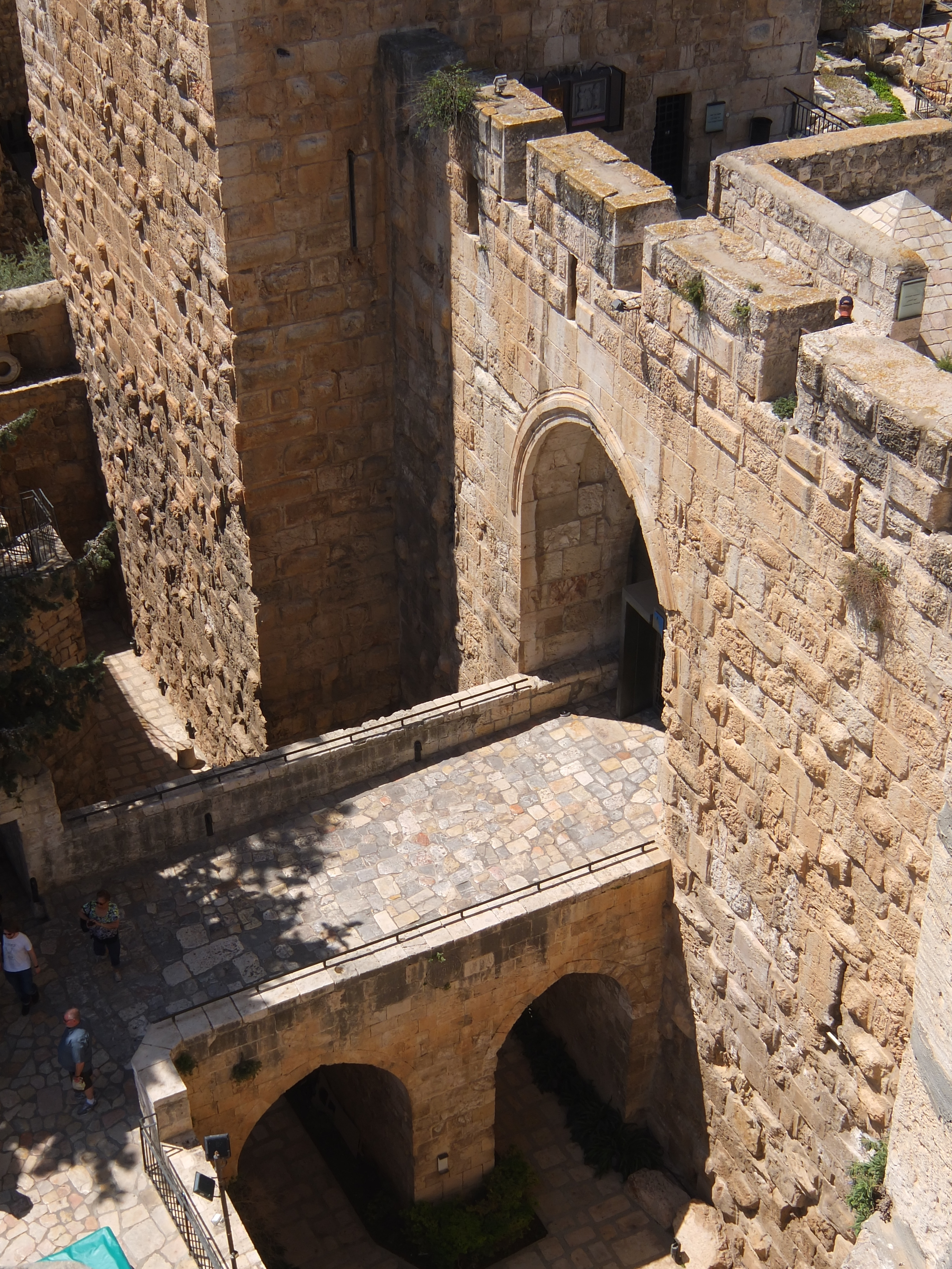 Outer wall of Tower of David